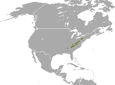 Appalachian Cottontail (Sylvilagus obscurus) range. Includes colonial borders.